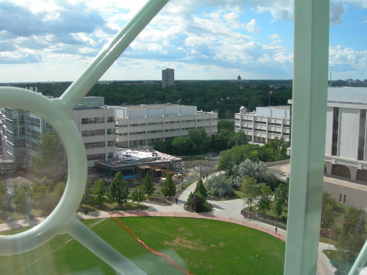 Self-made